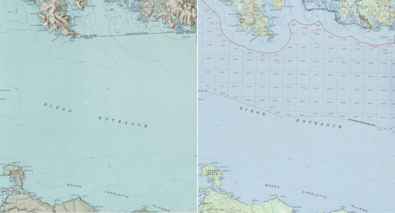 Dixon Entrance, Northwestern America. An illustration of the boundary dispute by showing the different notions of the U.S.-Canadian boundary on two maps provided by the U.S. Dept. of the Interior Geological Survey (enlarged detail of original material). The left side shows the 1903 AB-Line (dashed line in the upper third) and the right side the U.S. notion of the “limit of exclusive economic zone” (dashed black line near the label ‘Dixon Entrance’).